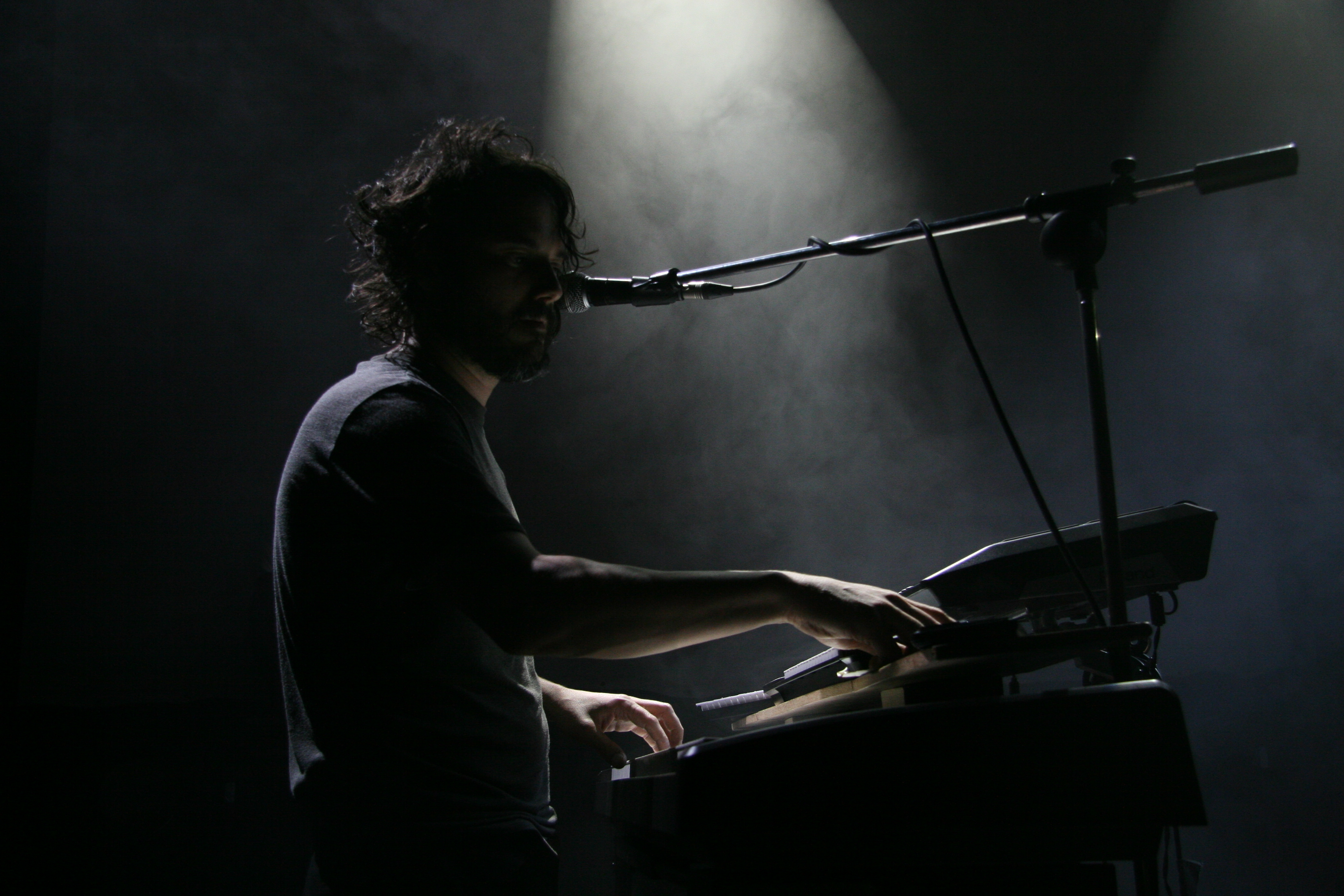 West Thordson. American band A Whisper in the Noise during the concert in Club Fléda, Brno, Czech Republic. 1st May 2012. Project: Fotíme Česko